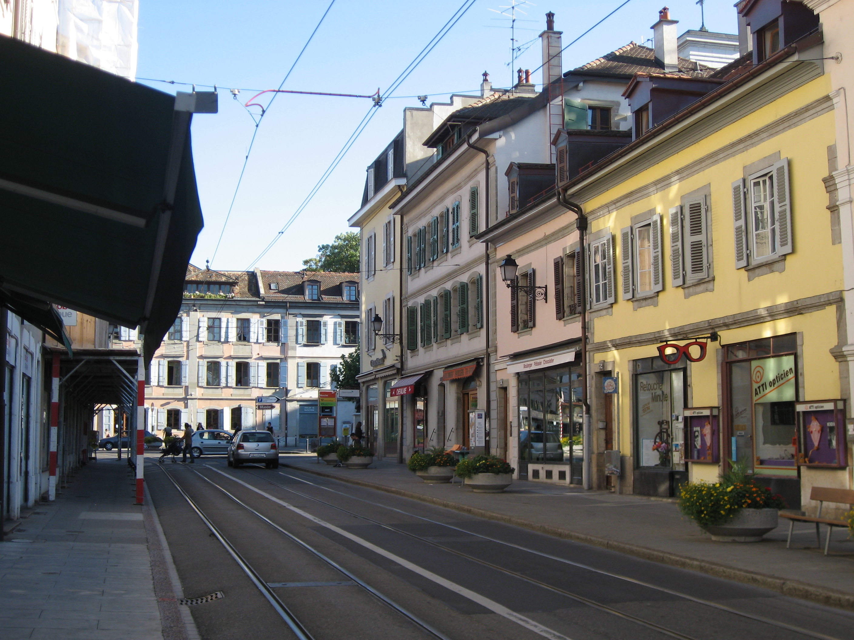 Carouge